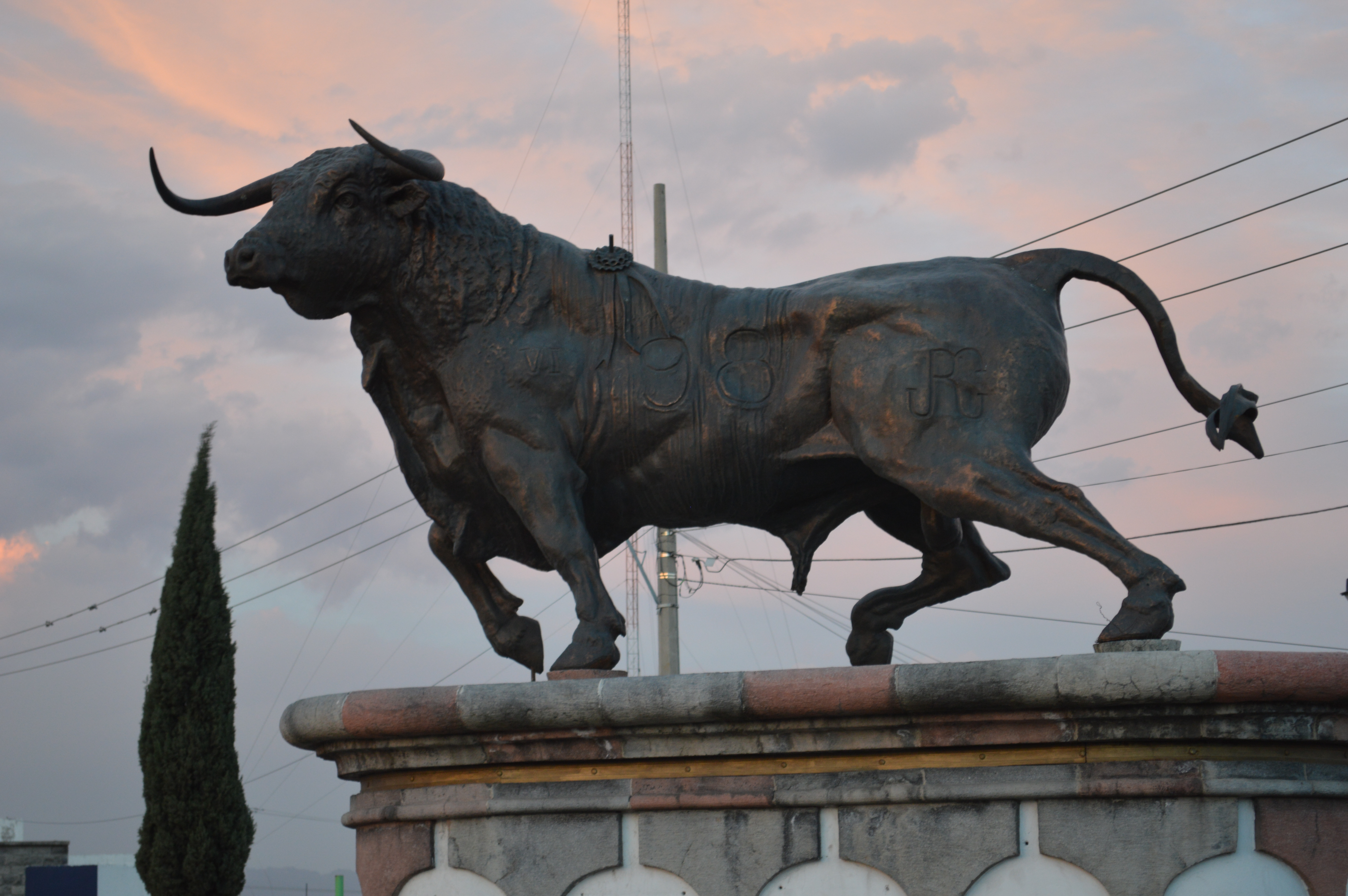 Monumento al Toro Bravo by Diodoro Rodriguez Anaya at the entrance to Huamantla, Tlaxcala, Mexico